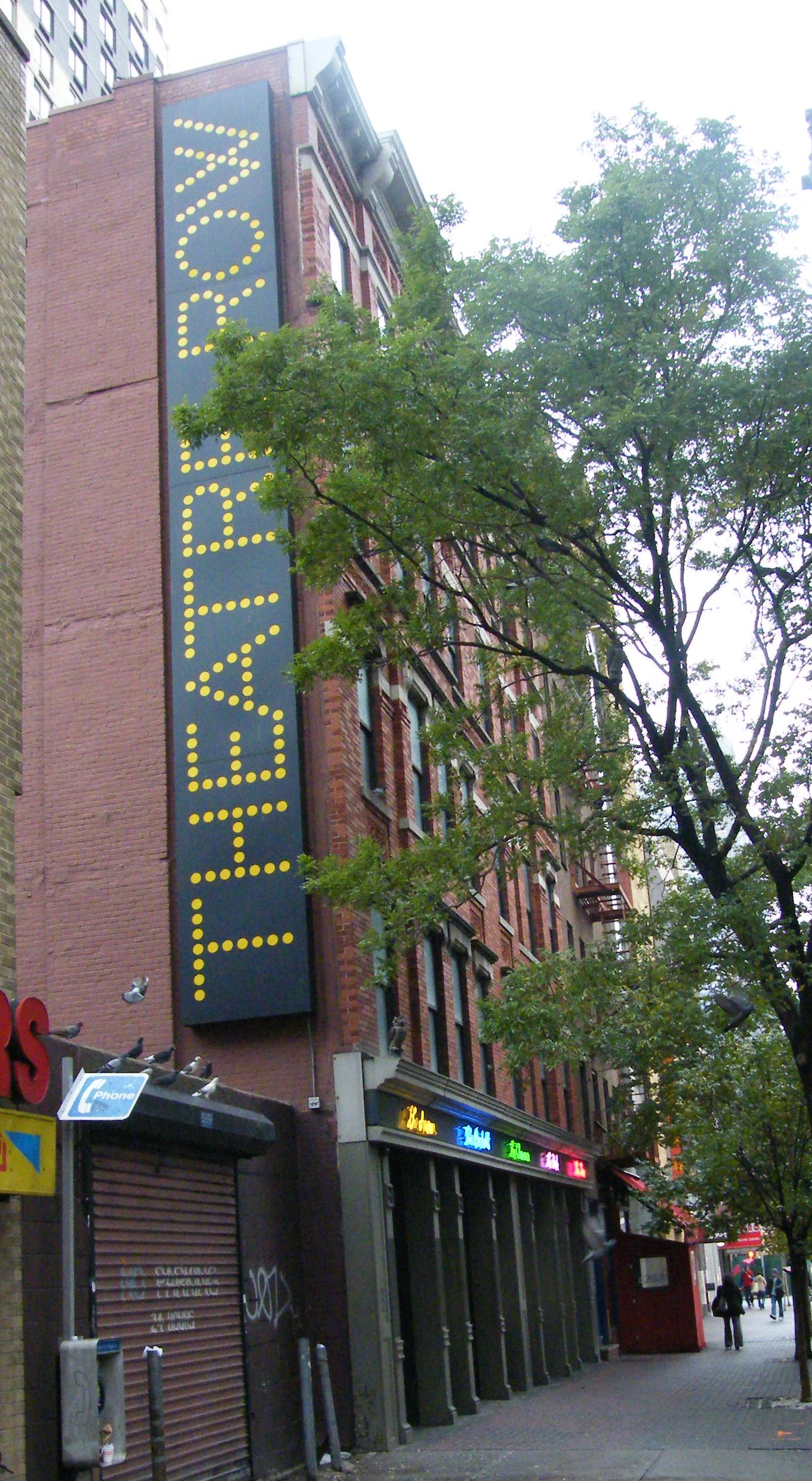 Theatre Row in New York City